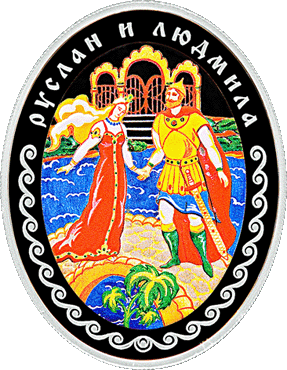 Belarus and the global community. Commemorative Coin "Ruslan and Ludmila"